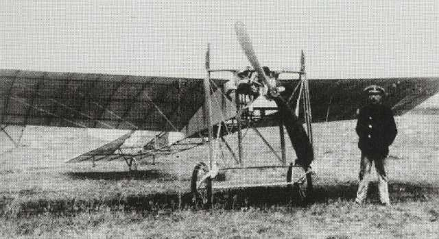 Ivan Sarić (Szárits János) first developed aircraft called Saricavion